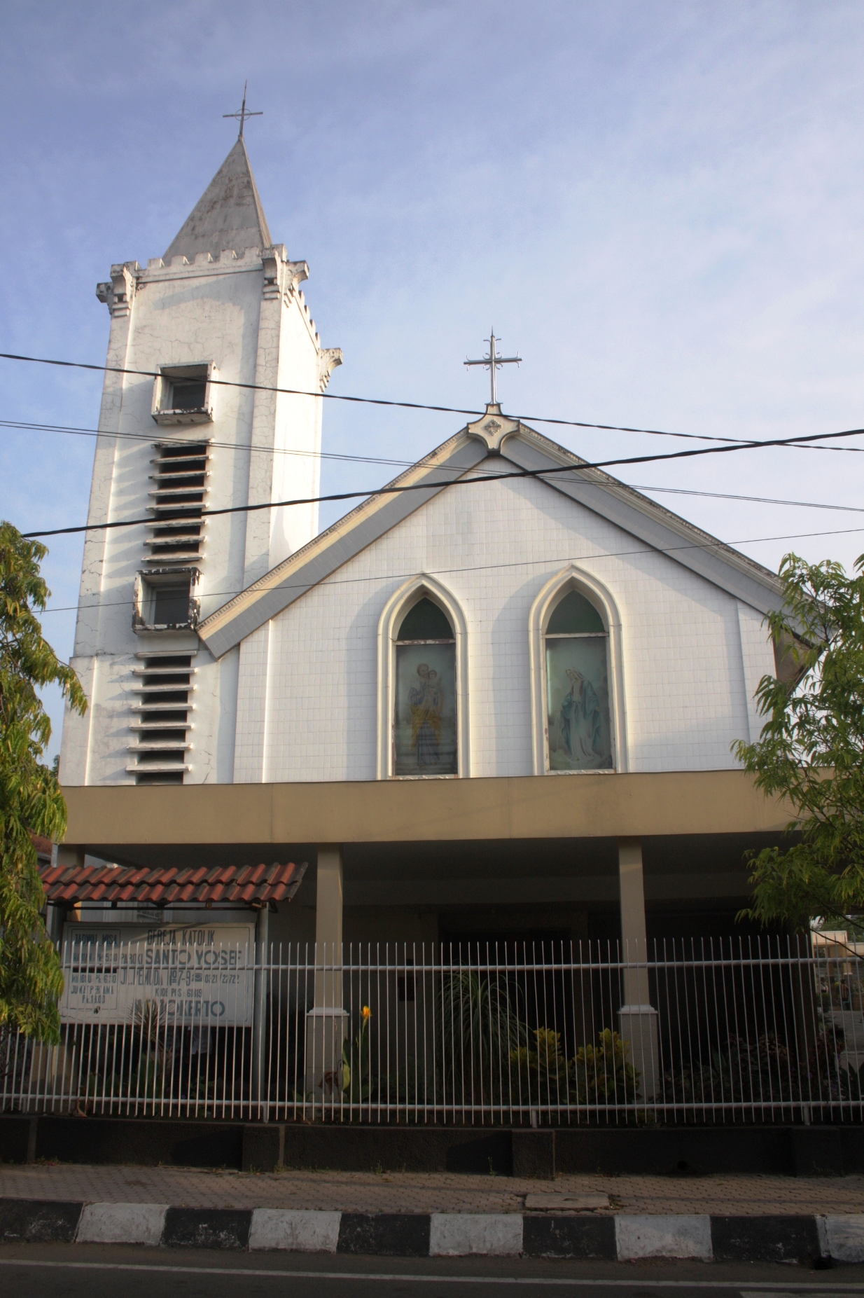 Old St. Joseph Church, Mojokerto, East Java, Indonesia